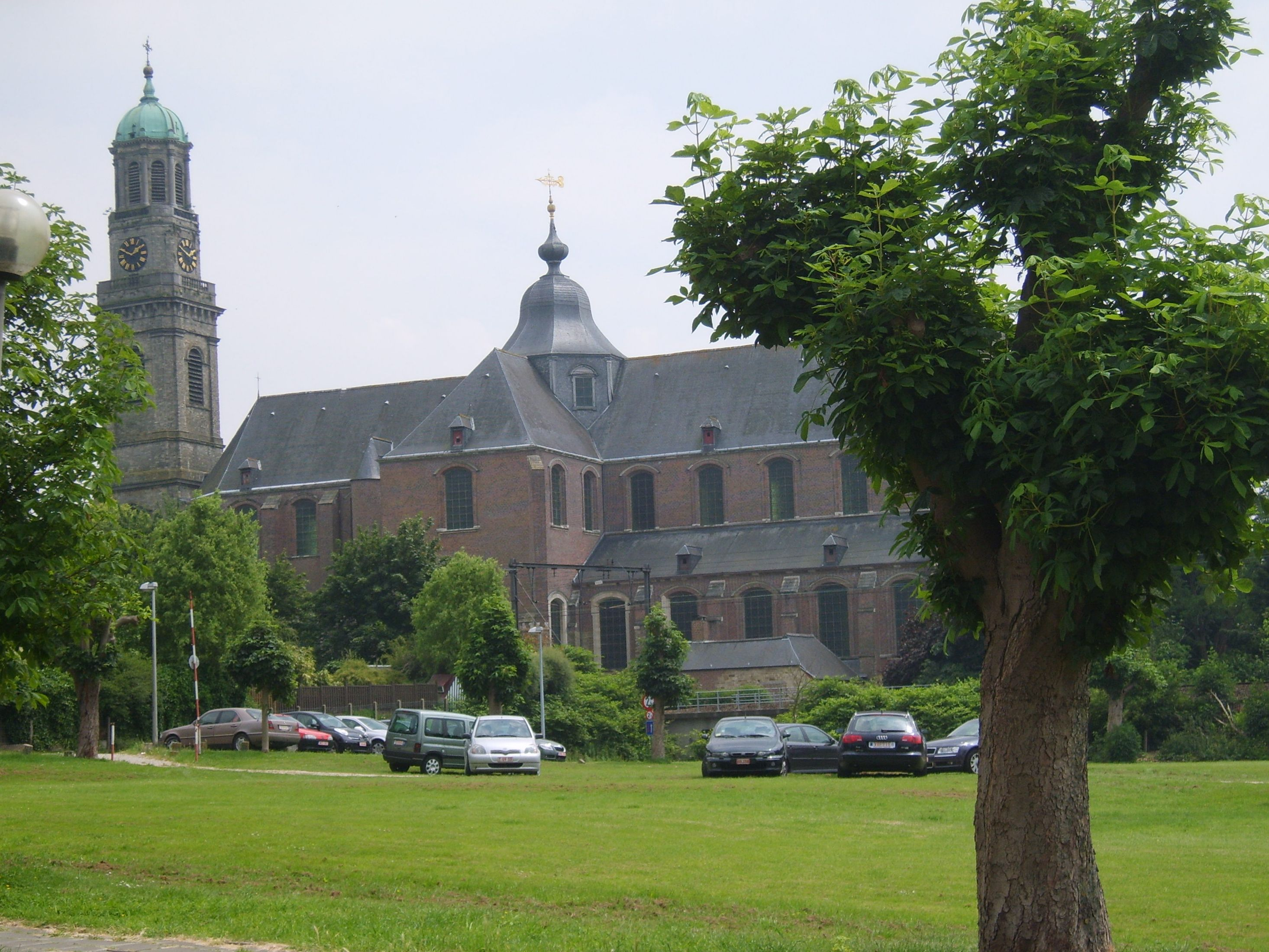 Picture of the church of Ninove I myself took